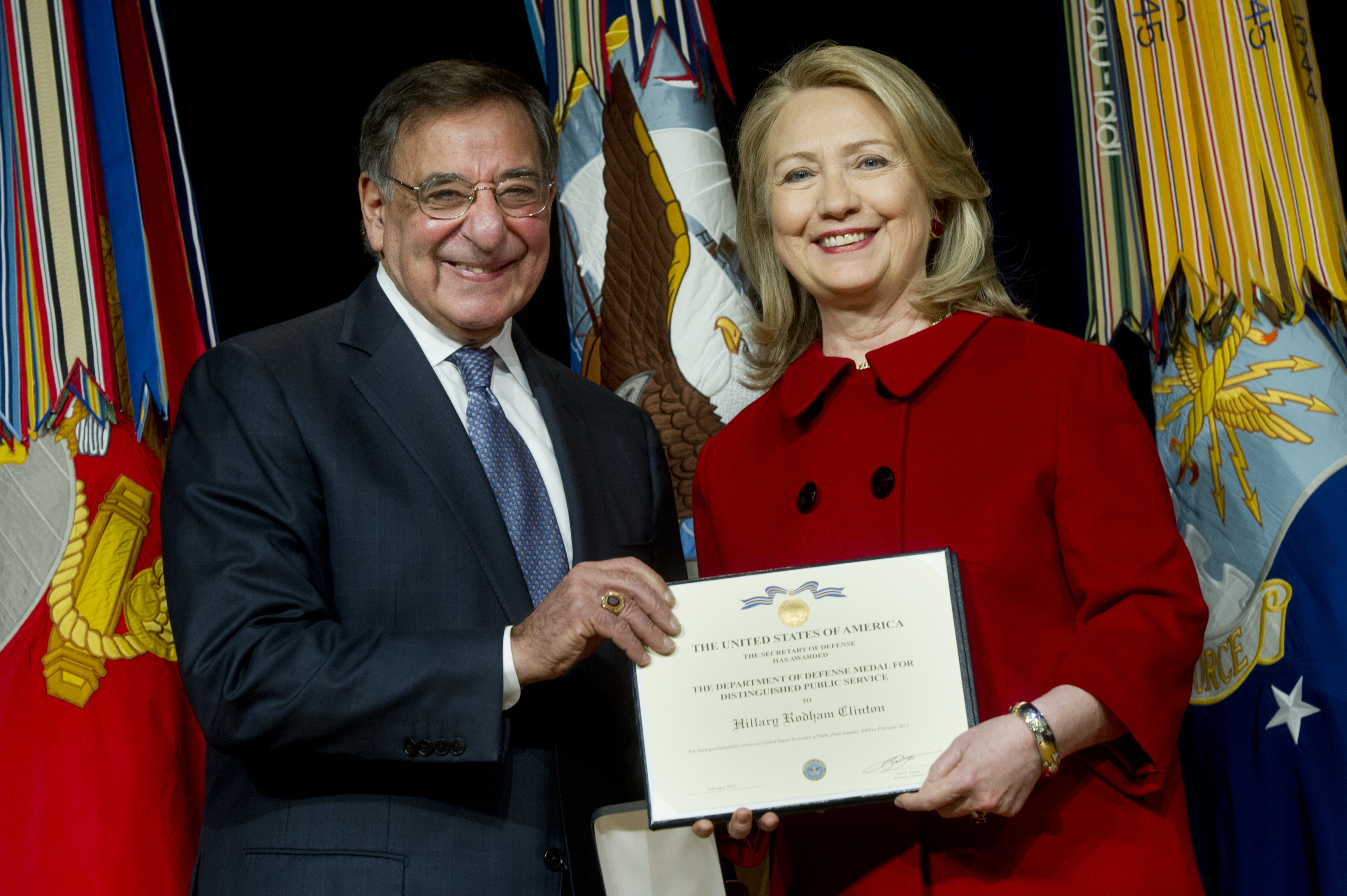 Secretary of Defense Leon E. Panetta presents former Secretary of State Hillary Rodham Clinton with the Department of Defense Medal for Distinguished Public Service during a ceremony in the Pentagon on Feb. 14, 2013. (DoD photo by Petty Officer 1st Class Chad J. McNeeley, U.S. Navy)